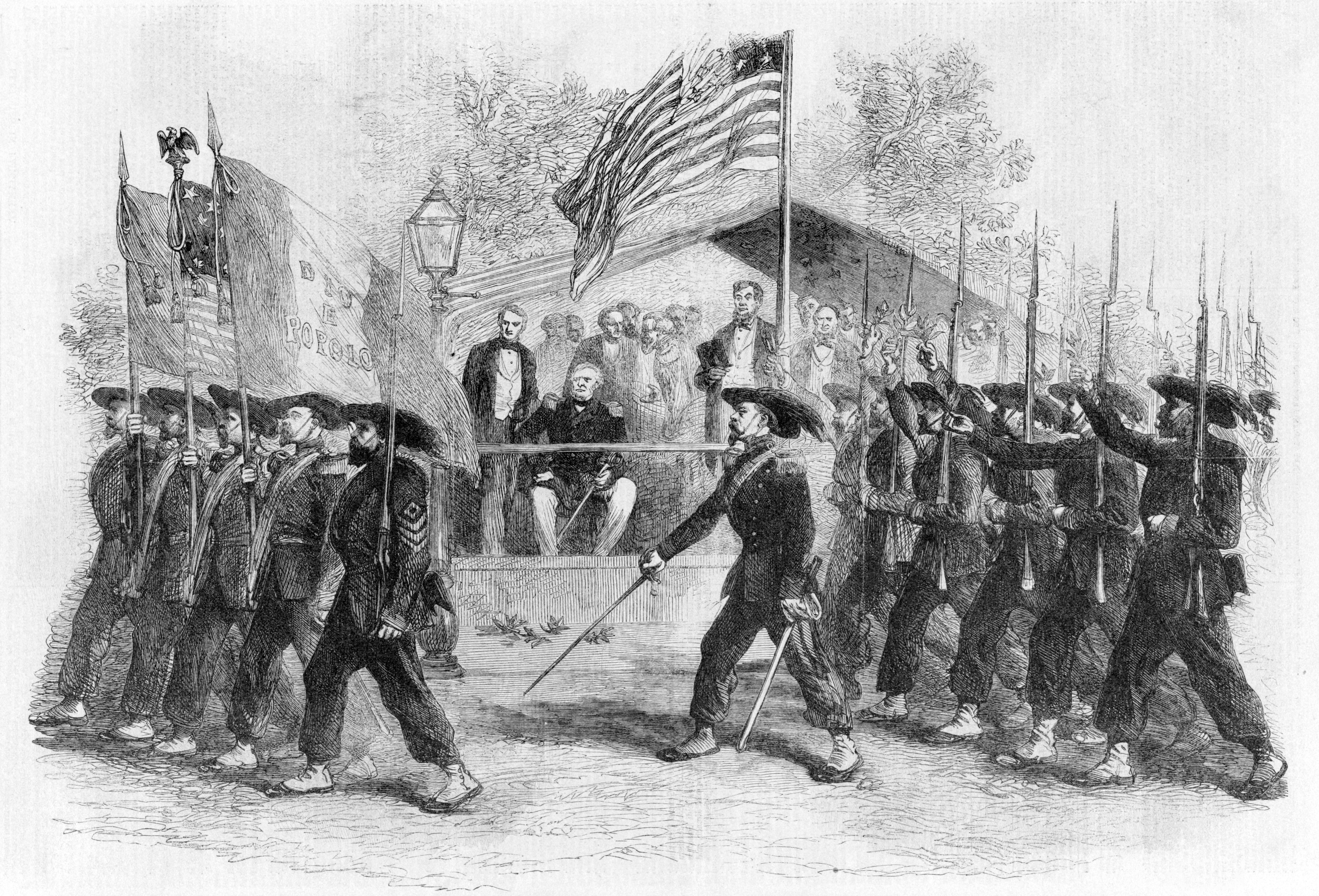 March past of the 'Garibaldi Guard' before President Lincoln, 1861-1865 (c1880). The 'Garibaldi Guard' was the nickname given to the 39th New York Volunteer Infantry Regiment that fought in the American Civil War. Many of the regiment's members were Italian Americans who had served under Giuseppe Garibaldi in Italy. A print by Frank Vizetelly from Cassell's History of the United States, by Edmund Ollier, Volume III, Cassell Petter and Galpin, London, c1880.